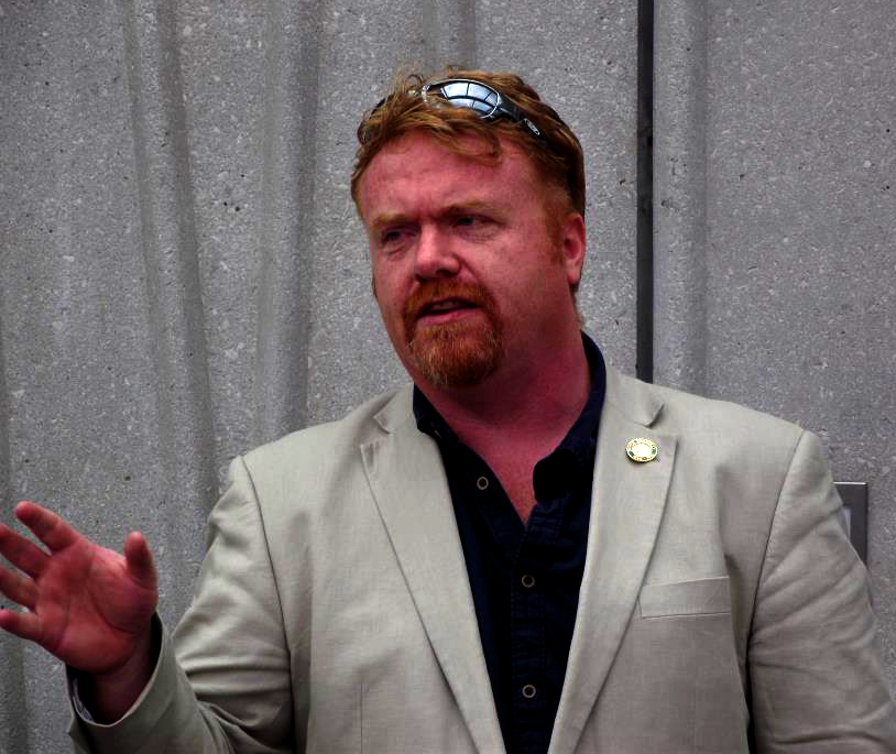 Mark Hirst speaking at Wallace Society event at the Scottish Parliament